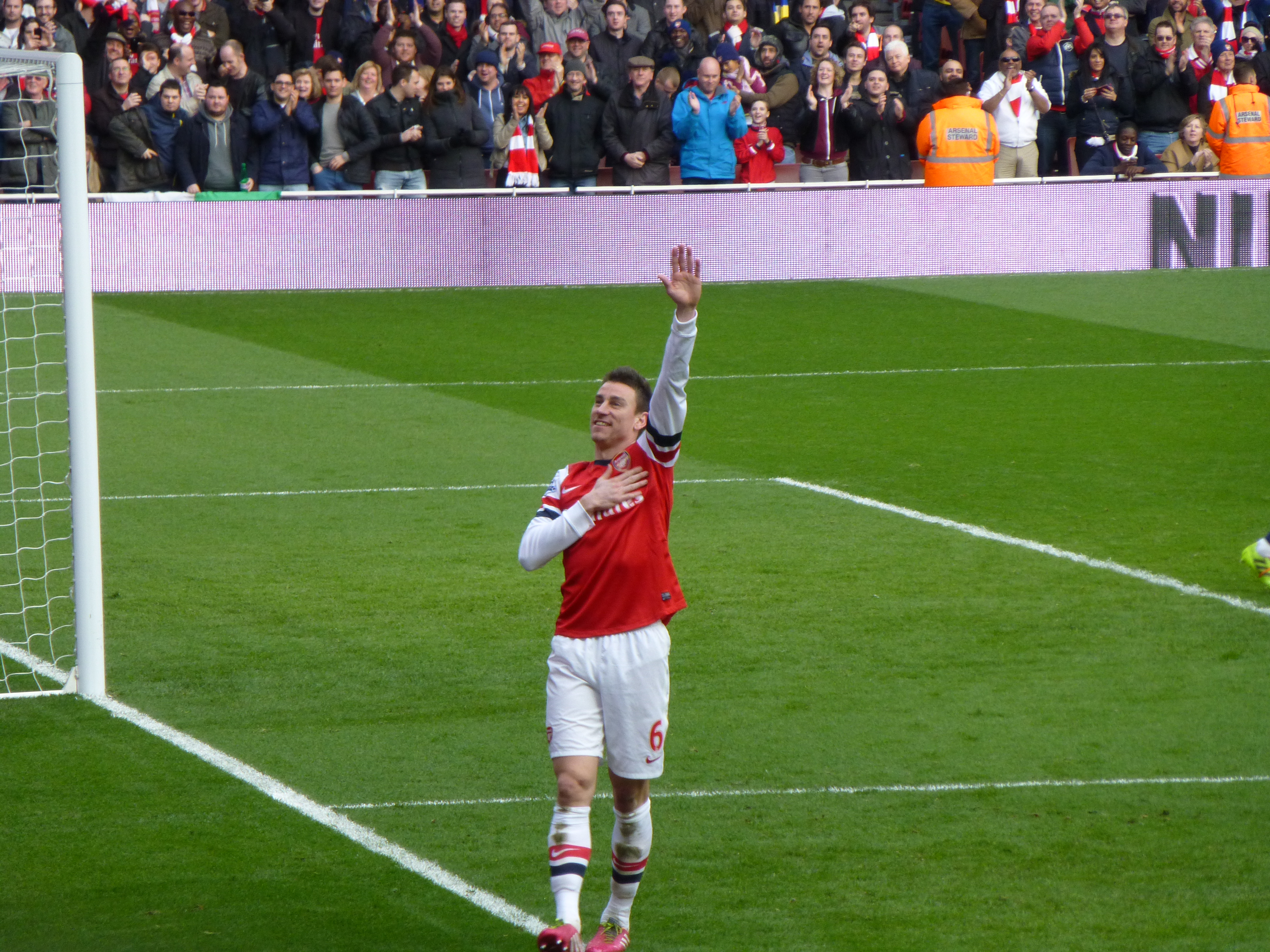 Laurent Koscielny celebrates scoring a goal against Sunderland in an English Premier League match on 22 February 2014.